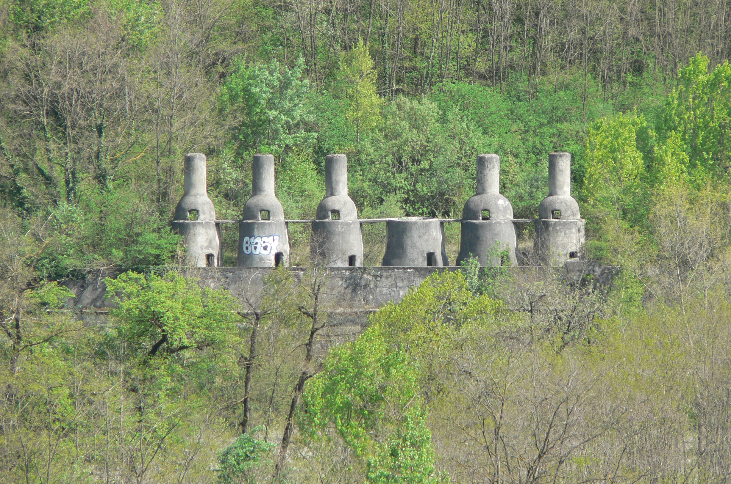 Old cement kilns of the Vicat cement factory in Genevrey (Isére, France)